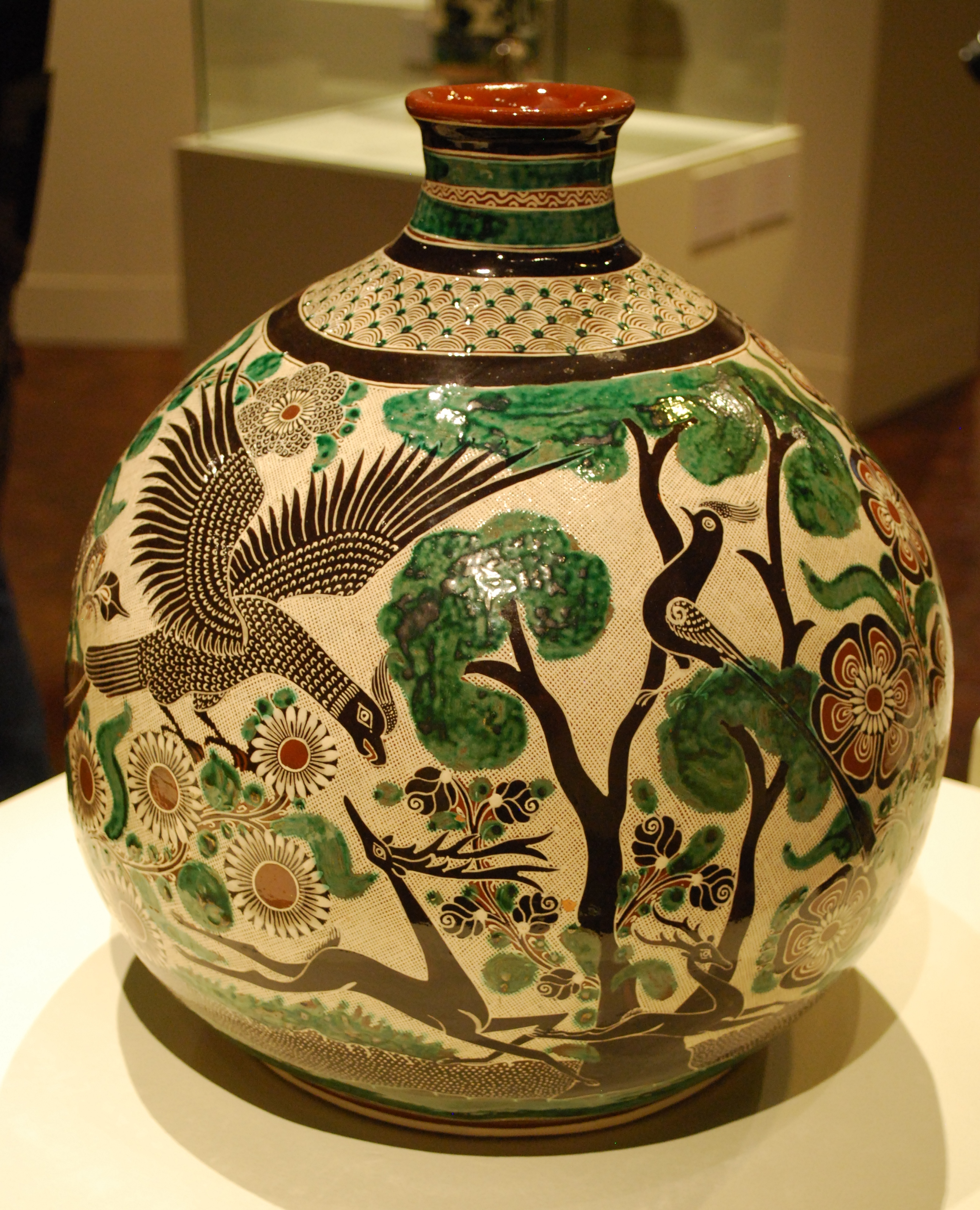 Round jar in barro petatillo by Jose Bernabe Campechano of Tonala, Jalisco on display at the Museo de Arte Popular in Mexico City